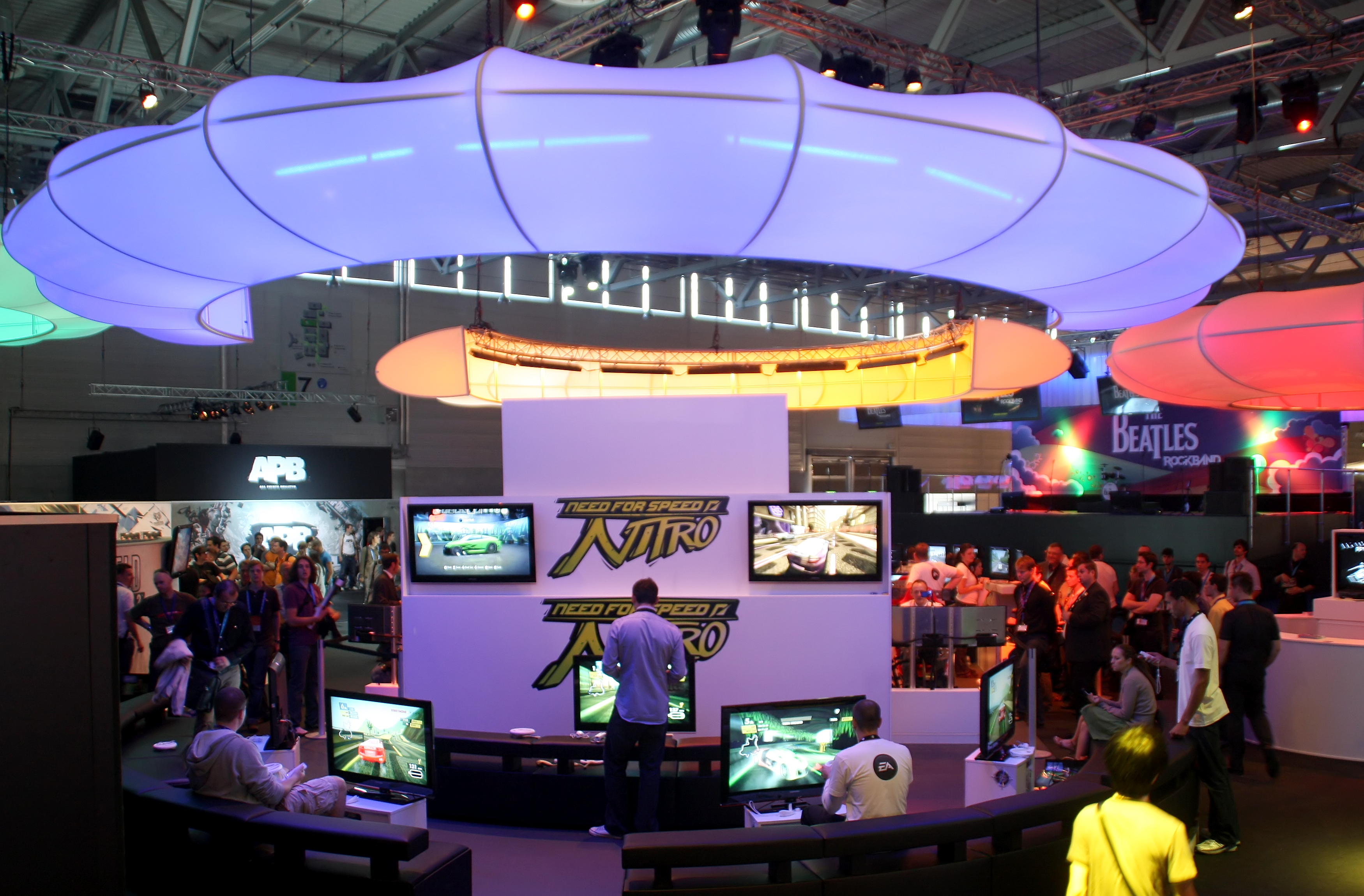 Booth of Electronic Arts on the Gamescom 2009, Cologne. Playing Need for Speed: Nitro